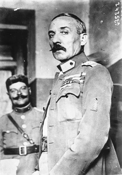 Lt. General Theodoros Pangalos in 1925, after becoming dictator of Greece